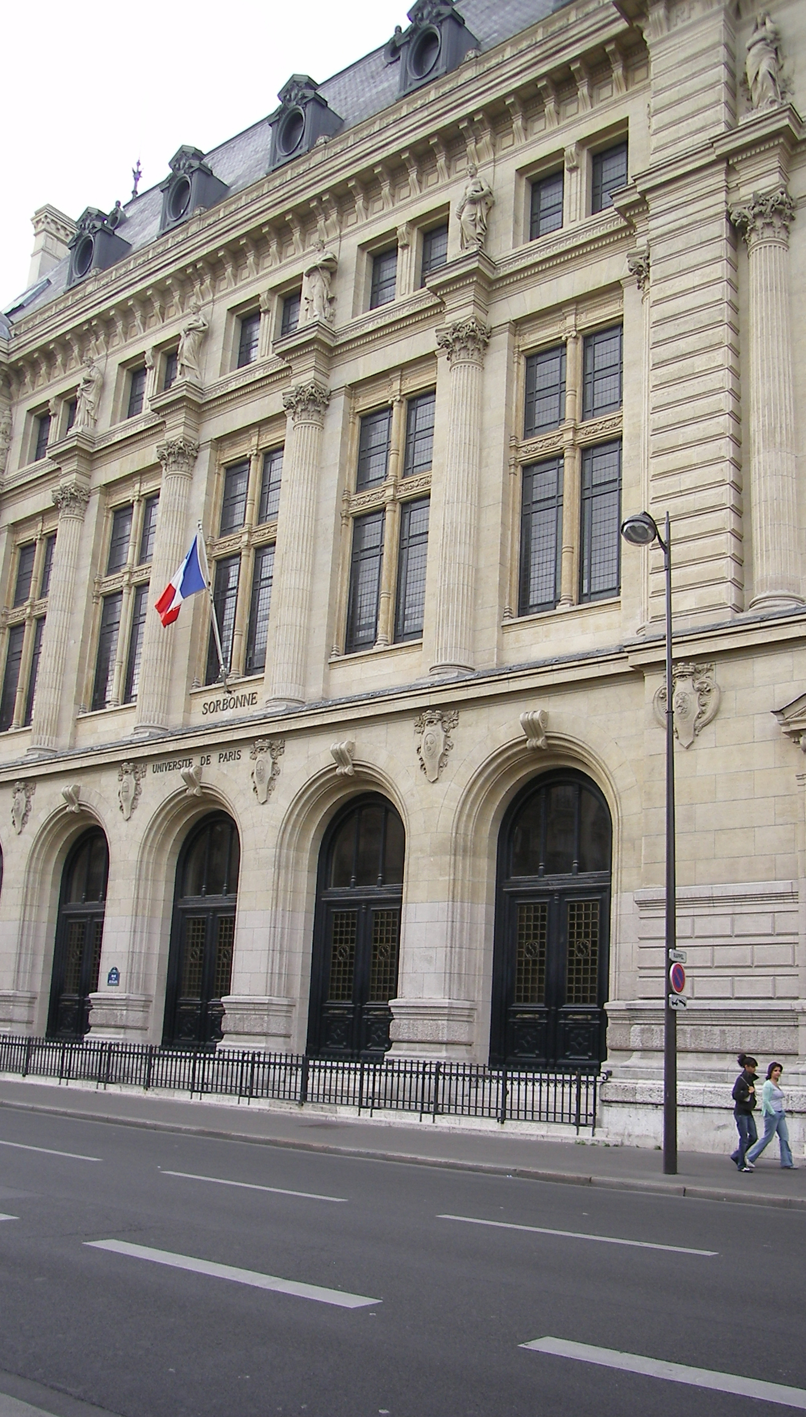 Sorbonne in Paris, seen from Rue Ecole